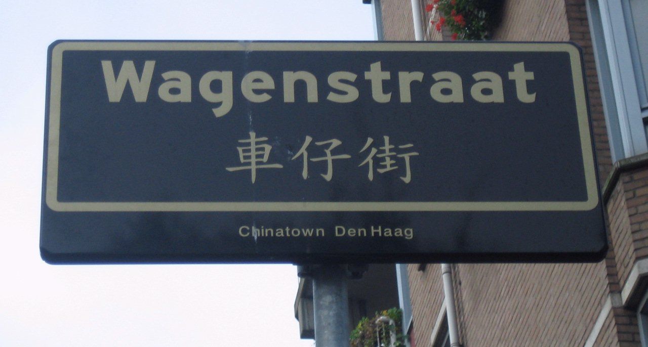 Road sign in Chinatown The Hague